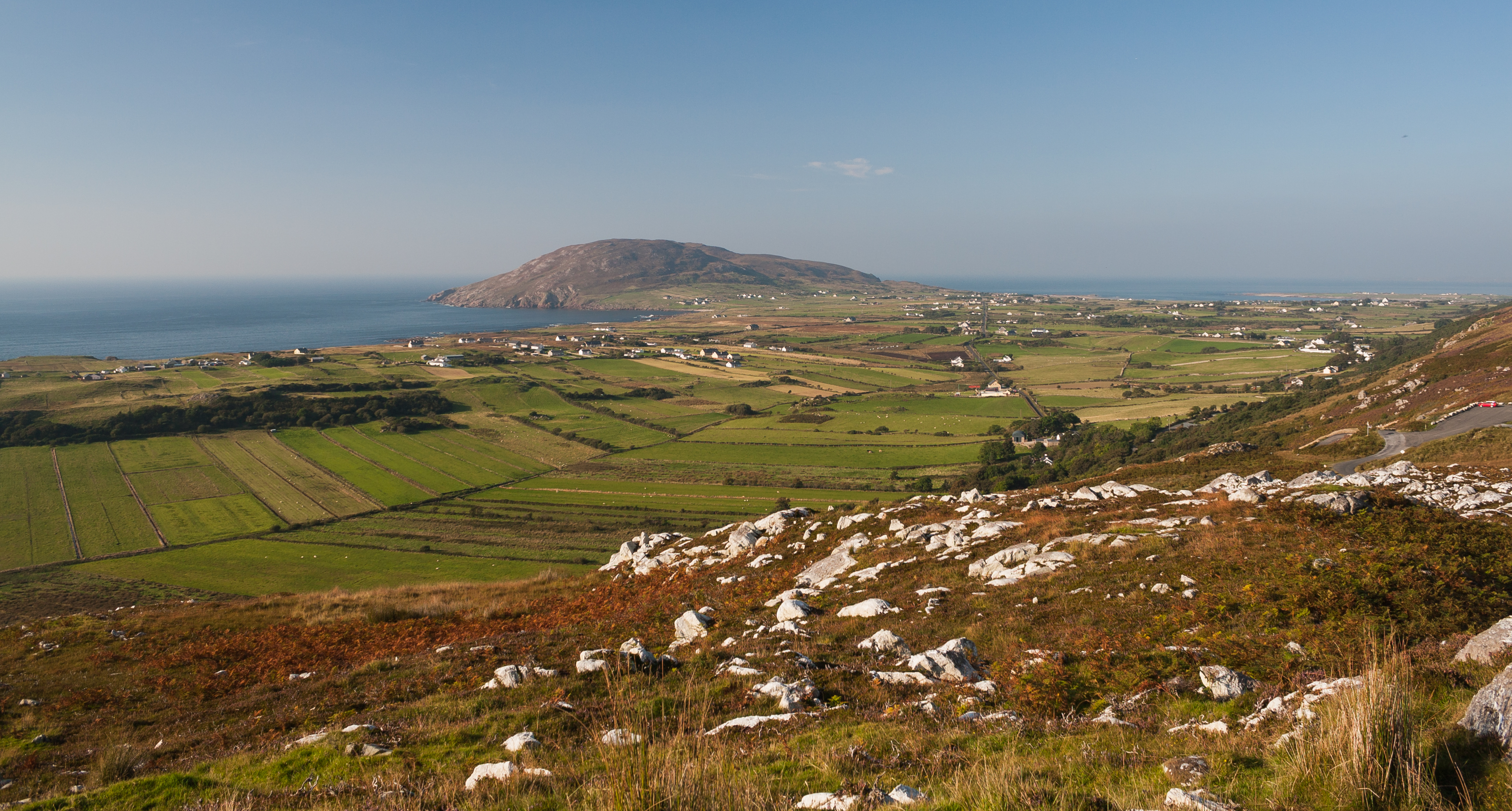 View from Mamore Gap to Urris, a once very isolated area in the north-west of the Inishowen peninsula. The headland in the centre of the picture is Dunaff Head.